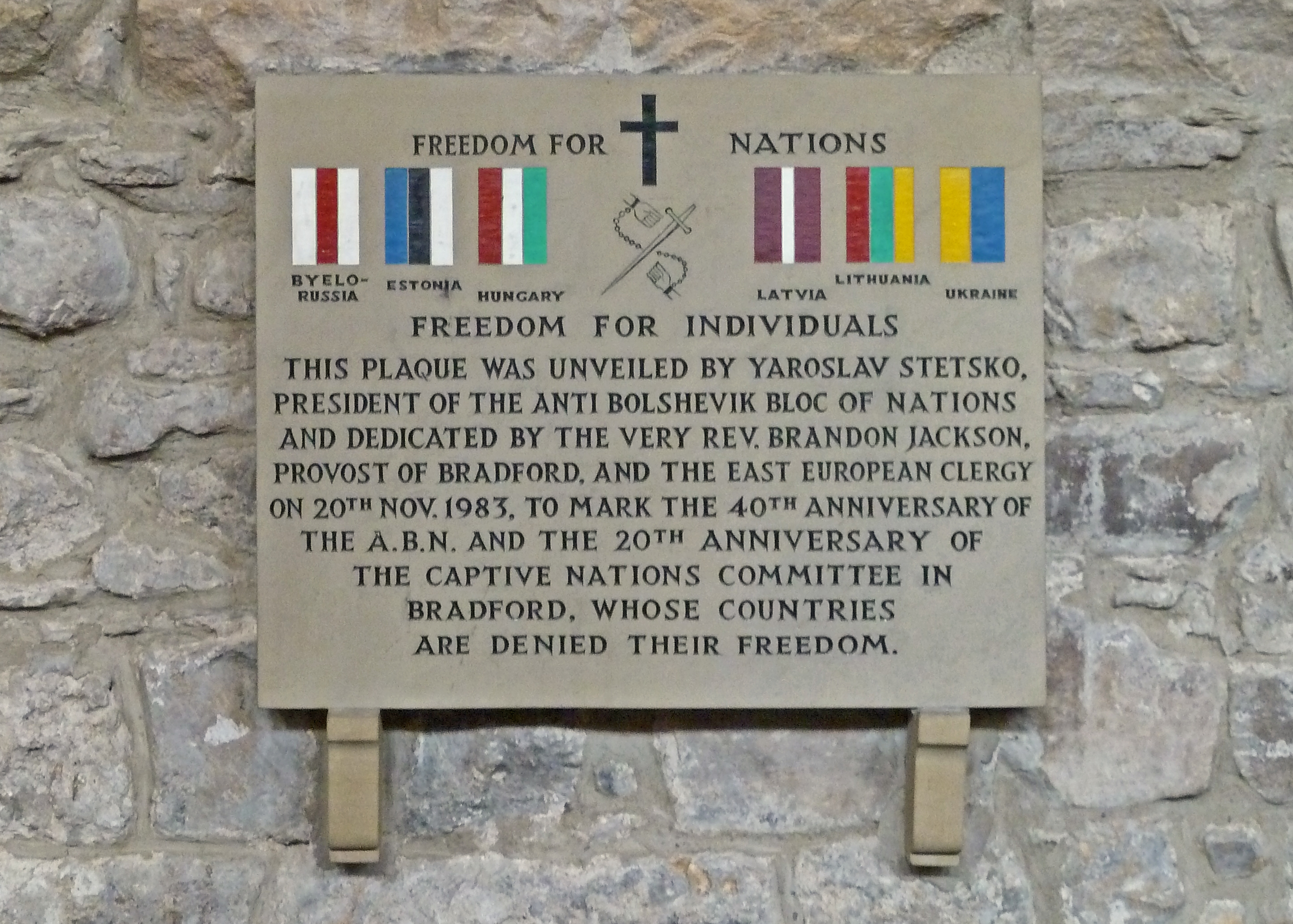 Yaroslav Stetsko, president of the Anti Bolshevik Bloc of Nations, unveiled a plaque "Freedom for Nations, Freedom for Individuals" at Bradford Cathedral, November 20, 1983.